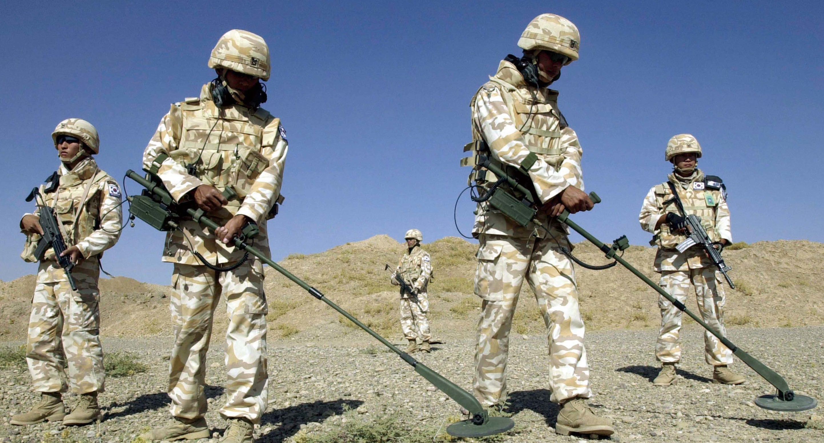 2010 국방화보 Rep. of Korea, Defense Photo Magazine 이라크 아르빌에서 평화·재건 임무를 수행하고 있는 자이툰부대 장병들이 지뢰 탐지를 하고 있다. Members of Zaytun Unit are searching for land mines in Arvil, Iraq.